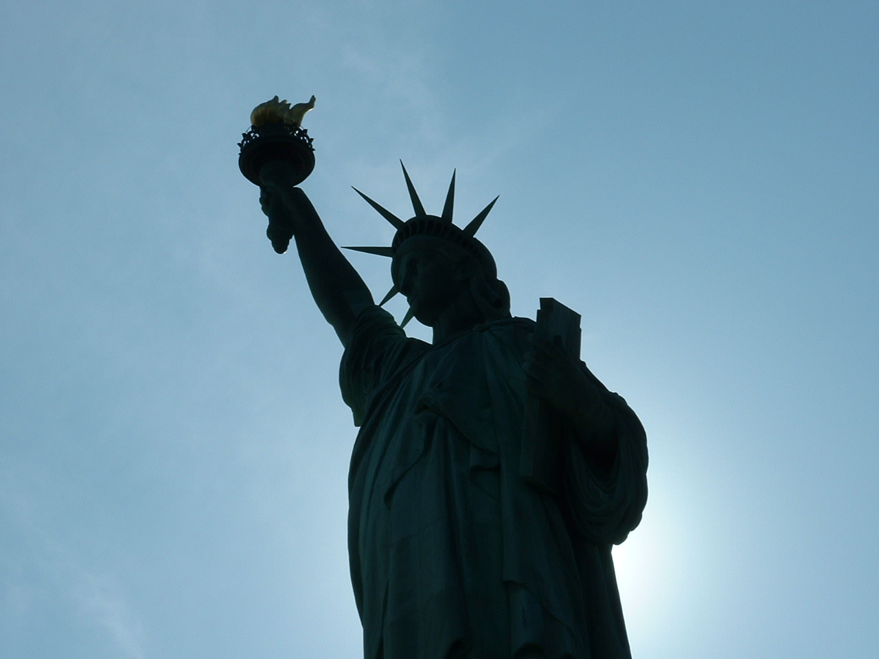 Statue of Liberty, New York